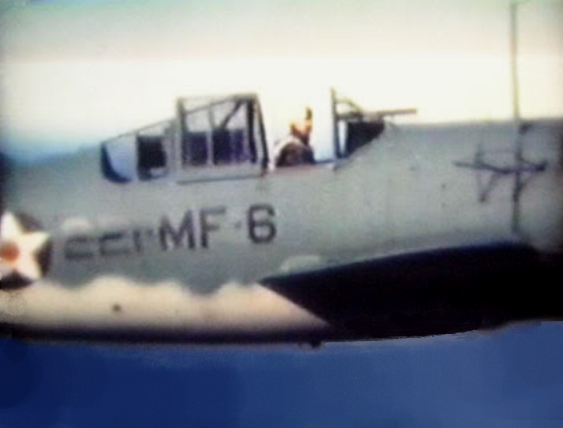 A U.S. Marine Corps Brewster F2A-3 Buffalo (BuNo 01552) from Marine Fighting Squadron VMF-221 flown by 2nd Lt. Hank Ellis over Naval Air Station North Island, California (USA), in November 1941. This aircraft was flown by 2nd Lt. Charles M. Hughes during the Battle of Midway and later crashed in a swamp near NAS Miami, Florida (USA), after the pilot bailed out after an engine failure on 13 November 1942.